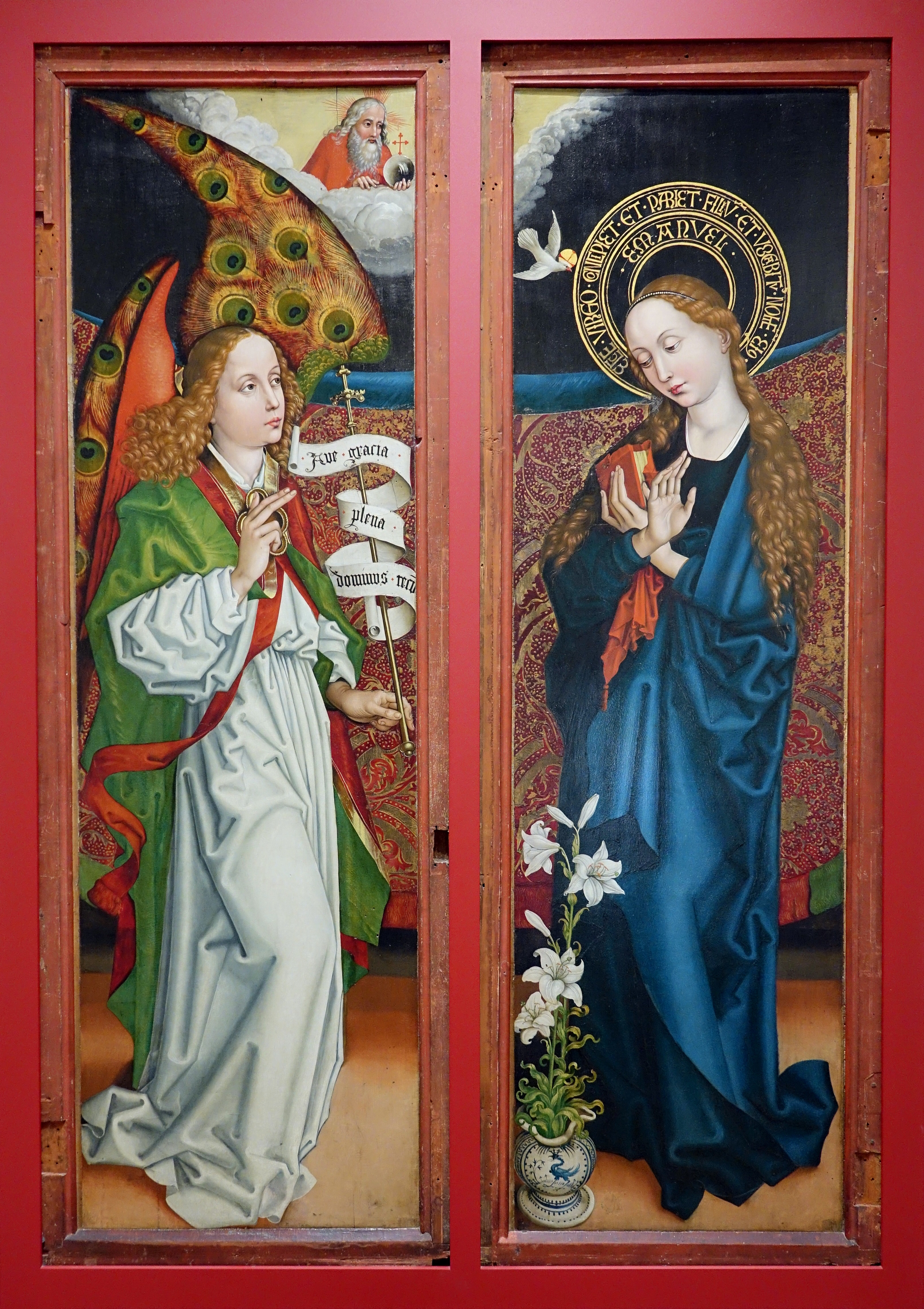 Orlier altarpiece, Annonciation (1472) by Martin Schongauer at the Unterlinden museum in Colmar (Haut-Rhin, France).